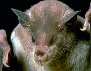 Lesser Long-nosed Bat, Leptonycteris yerbabuenae